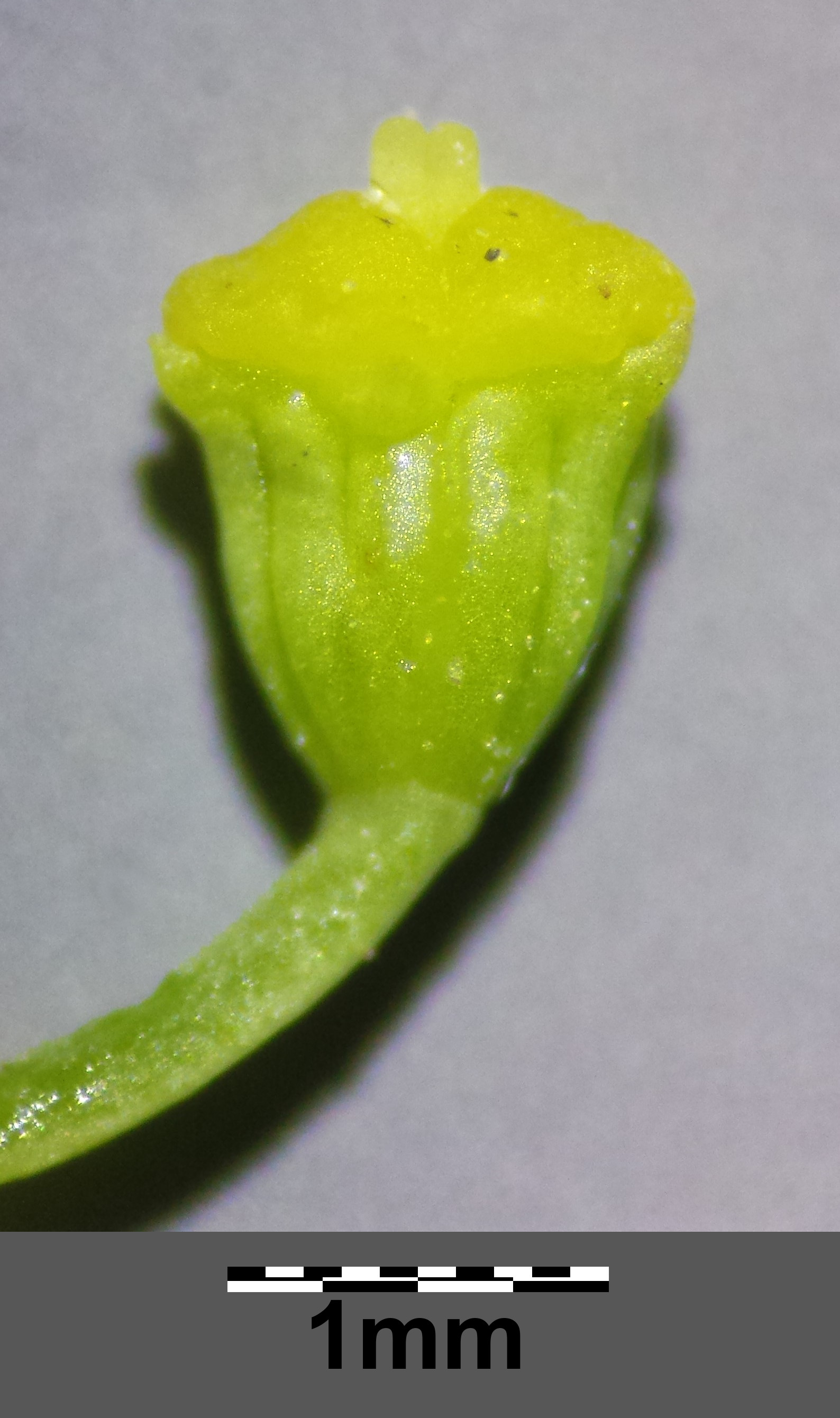 Fruit Taxonym: Peucedanum alsaticum ss Fischer et al. EfÖLS 2008 ISBN 978-3-85474-187-9 Location: Steinberg near Niederhollabrunn, district Korneuburg, Lower Austria - ca. 375 m a.s.l. Habitat: semi-dry grassland